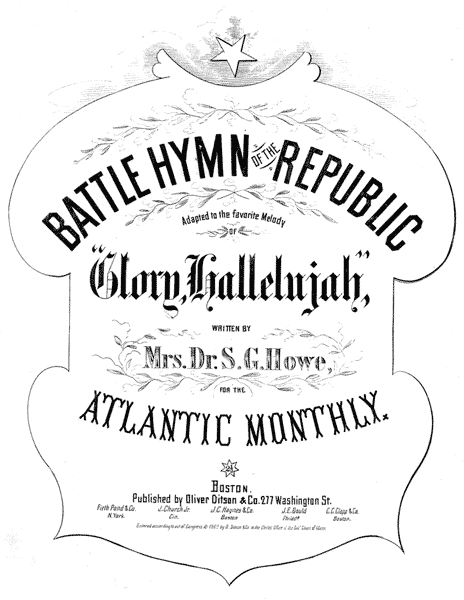 Cover of sheet music for "The Battle Hymn of the Republic" words by Mrs. Dr. S.G. [Julia Ward] Howe, Boston: Oliver Ditson & Co., 1862